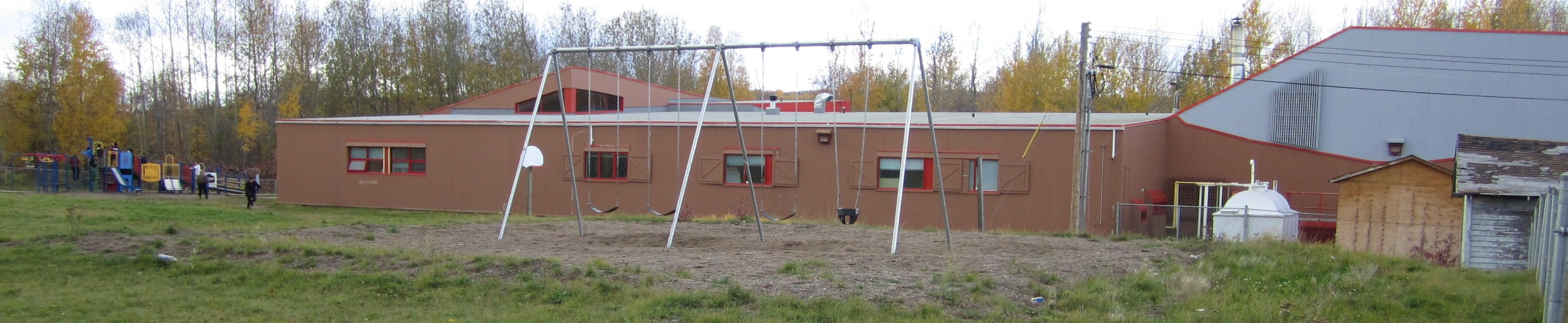 This is a picture of the school in Fort Liard.